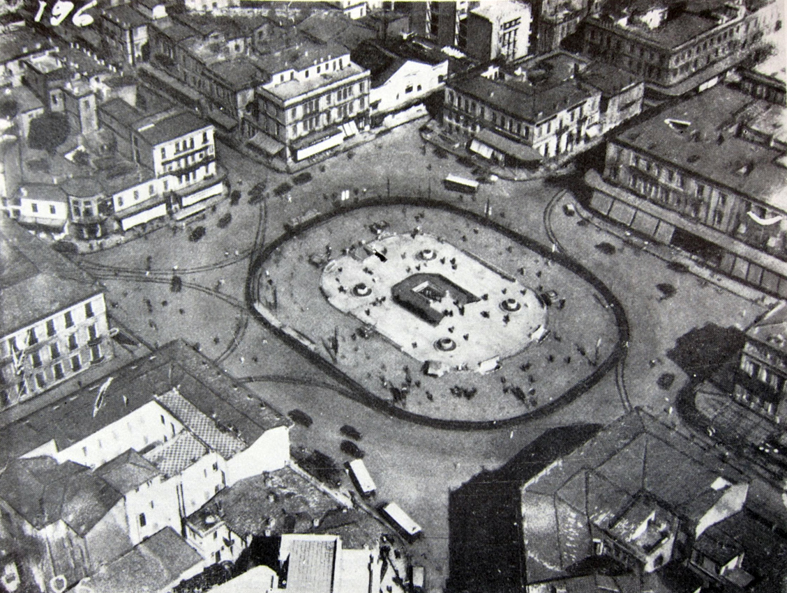 The Omonia square in Athens, 1932.